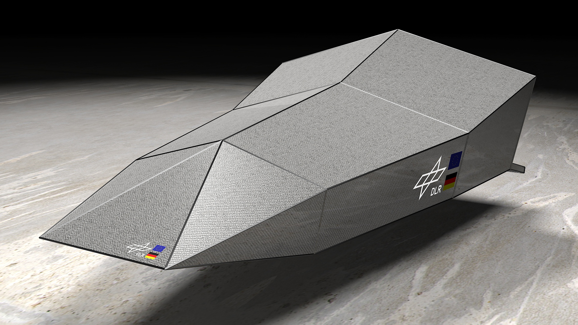 The aim of the SHEFEX development programme – a novel space glider called 'REX Free Flyer', which could be available from 2020 for microgravity experiments that can be returned to Earth. The sharp-edged shape promises two important advantages: firstly, the heat shield will be easier to manufacture and more immune to the effects of re-entry; in addition, the faceted shape results in improved aerodynamic properties.